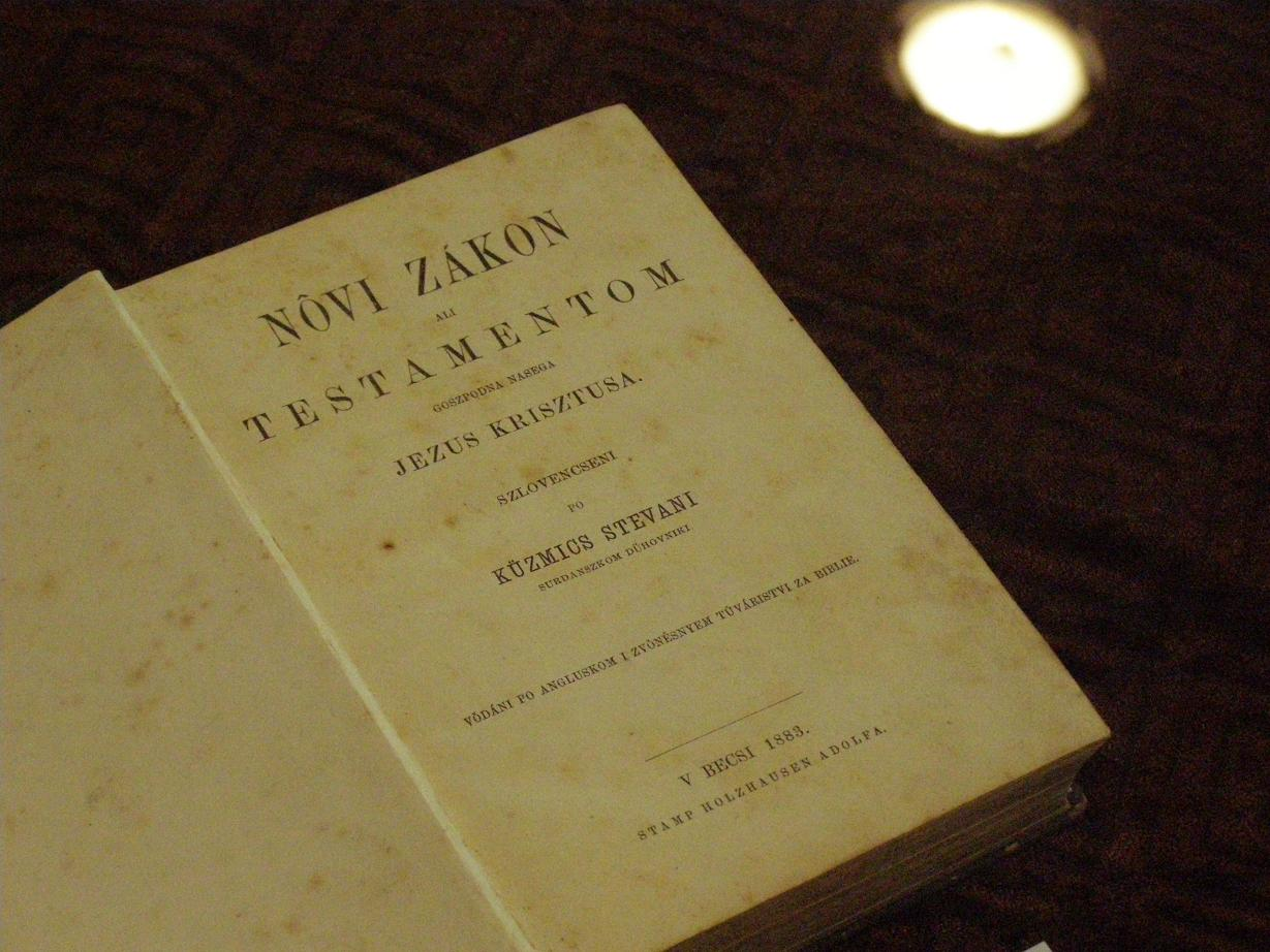 The Nouvi Zákon in 1883 (made in Vienna)